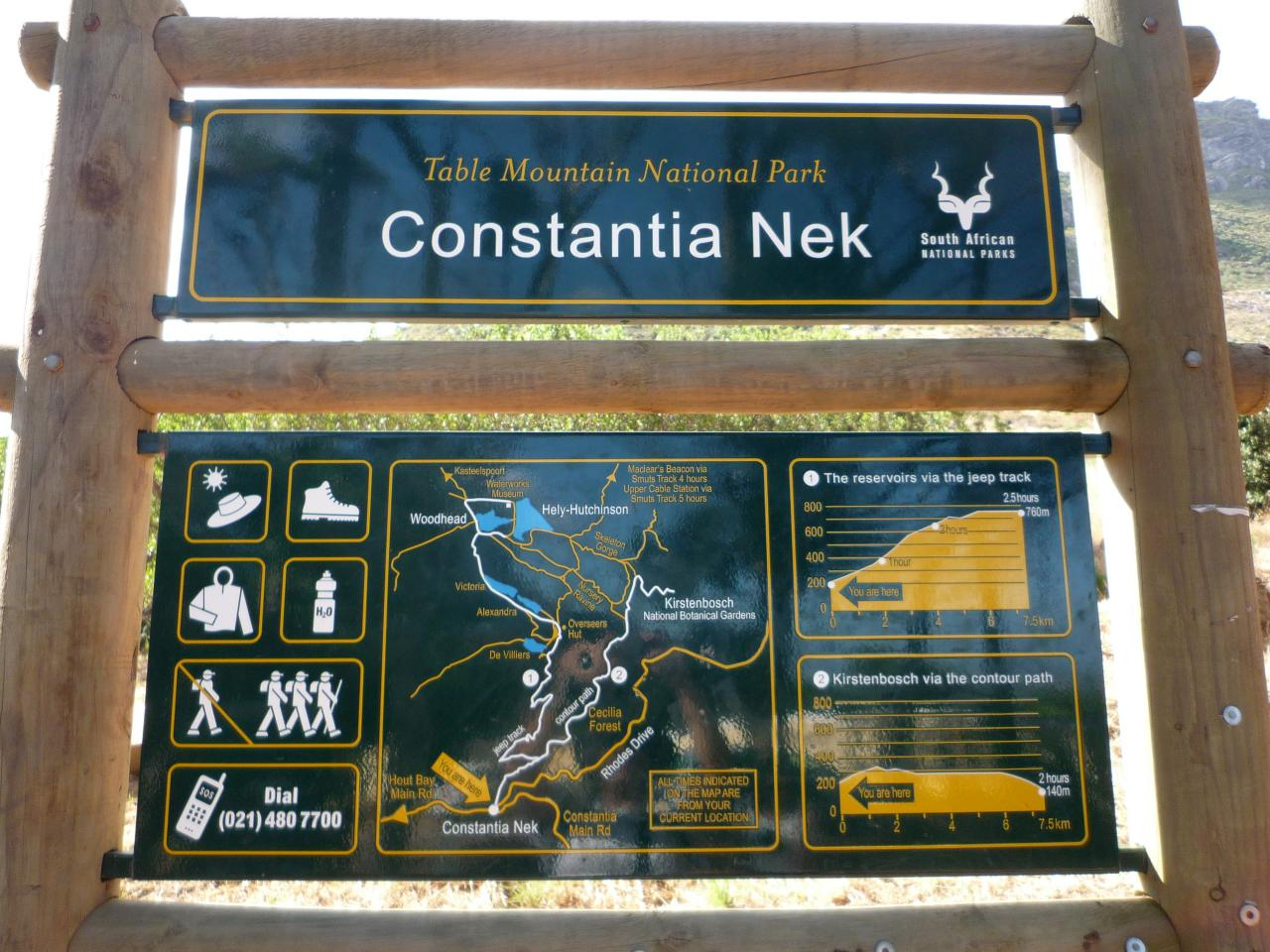 Constantia Nek pass - Table Mountain National Park - Cape Town